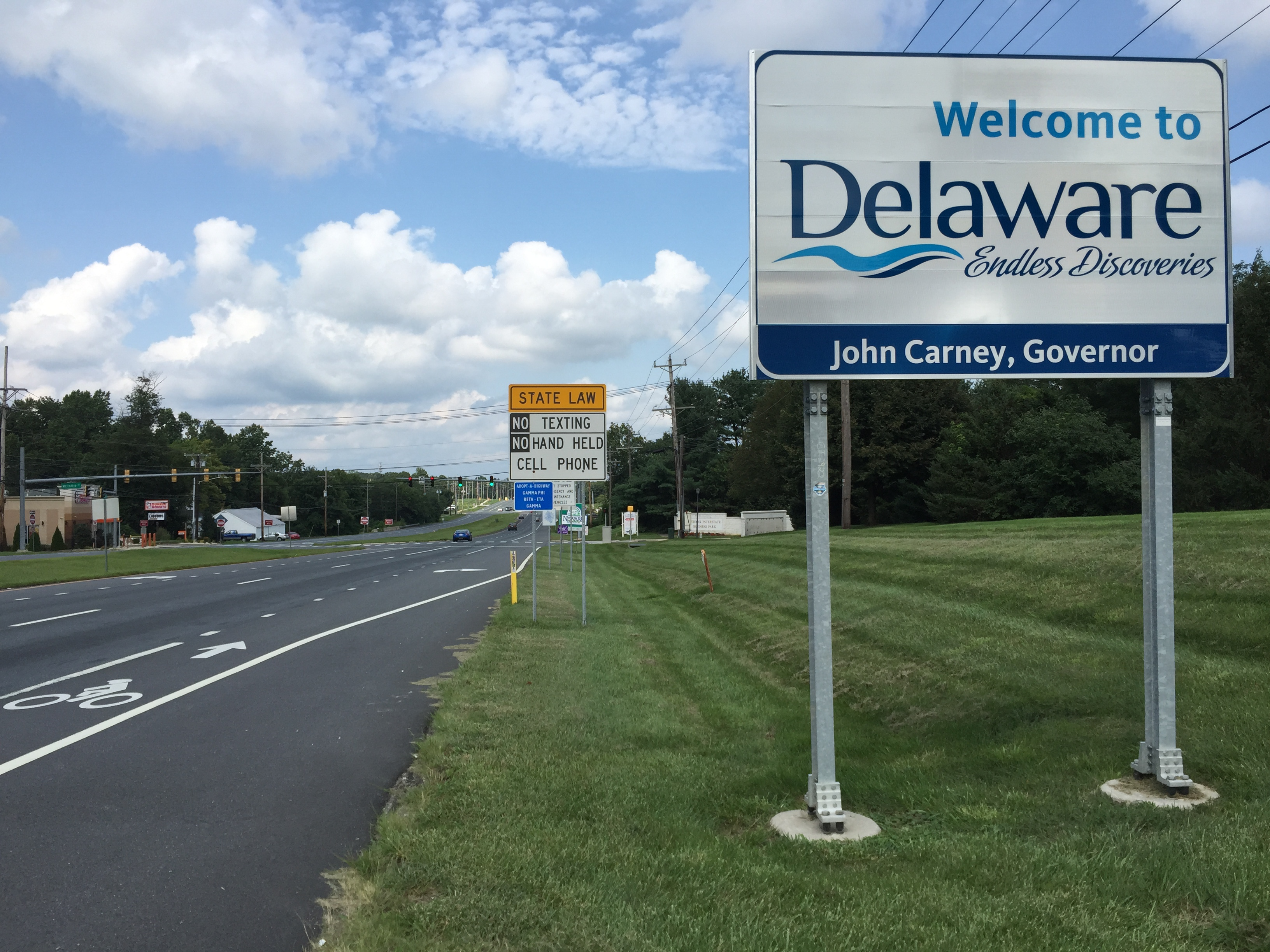 View east along Delaware State Route 279 (Elkton Road) at McIntire Drive, entering Newark, New Castle County, Delaware from Iron Hill, Cecil County, Maryland